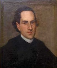 Nicola Spedalieri self portrait Portrait preserved among Spedalieri’s relics in the Real Capizzi College. The painting was made in 1777 when Spedalieri was 33 years old. It was donated to the college in 1886 by his heirs. The inscription on the frame reads, The inscription below says: "Nicolaus Spitaleri aetat suae XXXIII-Hanc on the suàmet manu pinxit effigiem." Spedalieri’s original name was Spitaleri, which he changed during his stay in Rome.